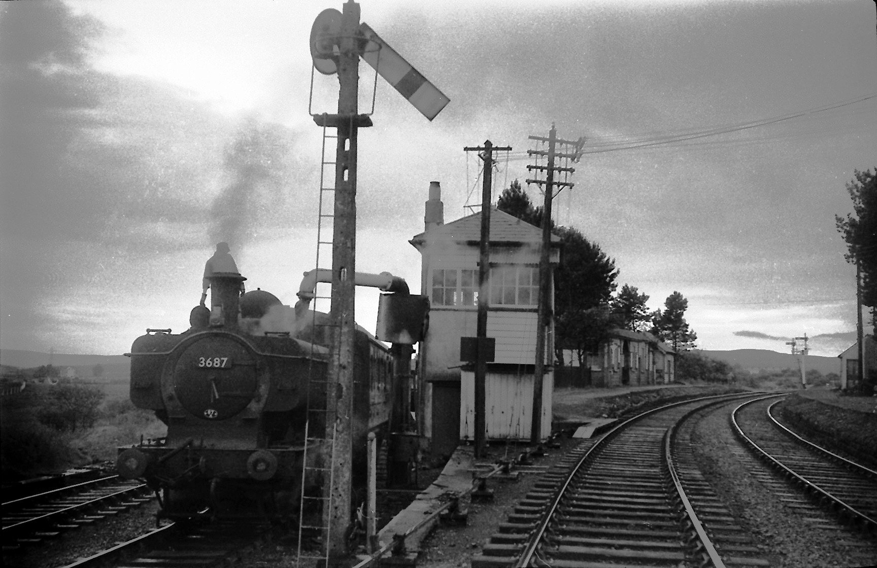 Neath Riverside - Brecon train pauses at Coelbren Junction